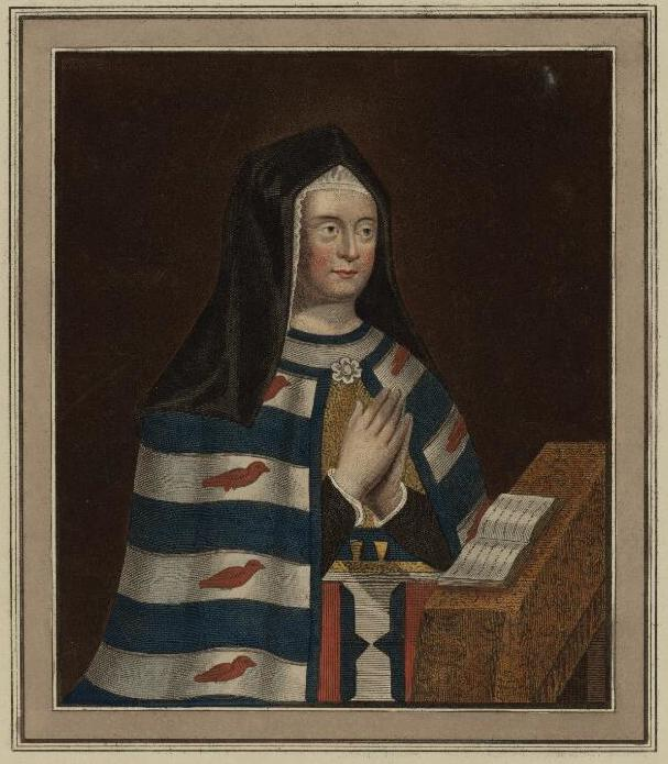 A portrait from the Welsh Portrait Collection at the National Library of Wales. Depicted person: Marie de St Pol – Foundress of Pembroke College, Cambridge